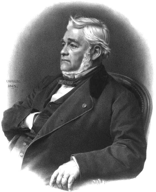 Louis-Auguste Monnin-Japy